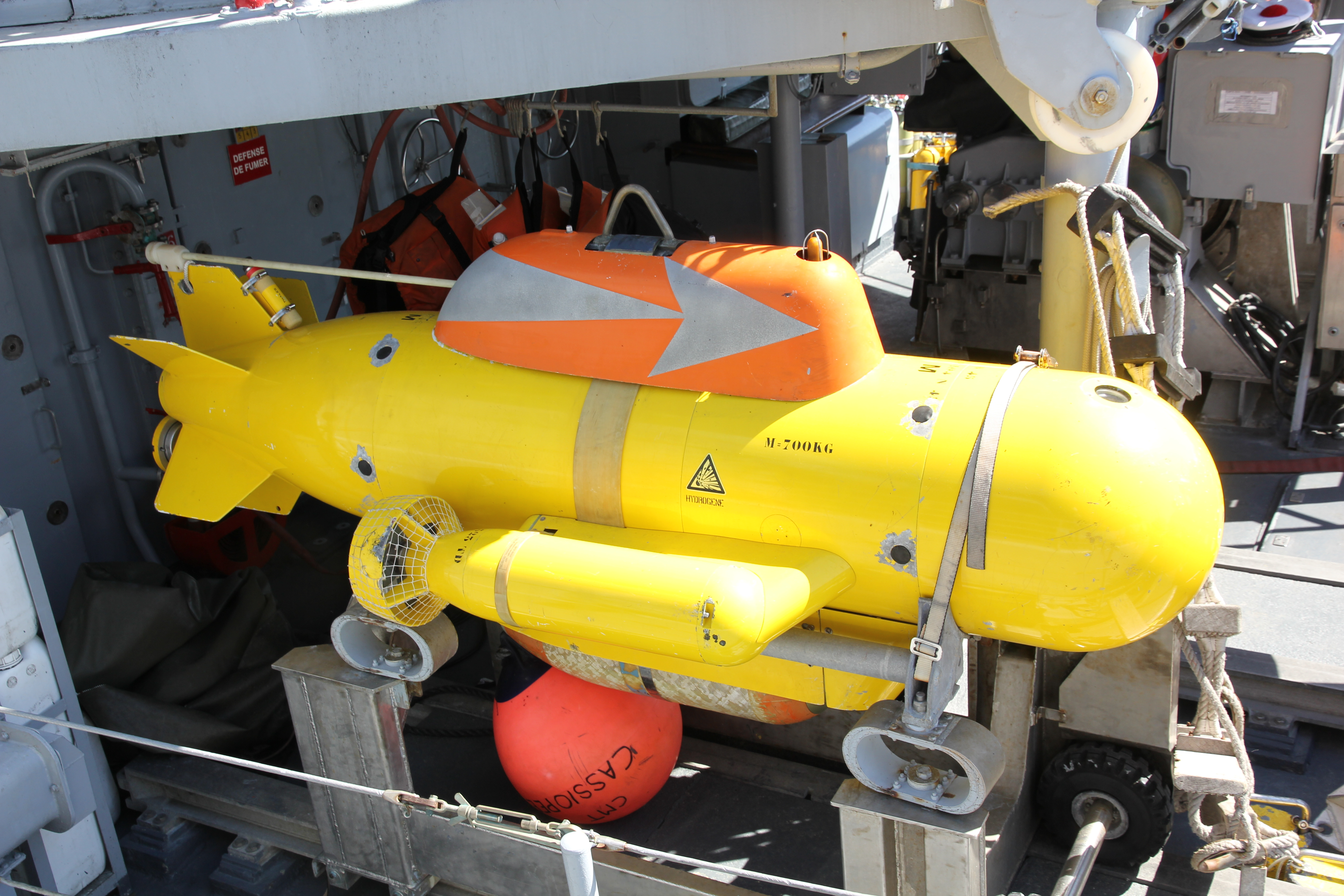 PAP-104 remote operated vehicle of the French minehunter Cassiopée (M642).